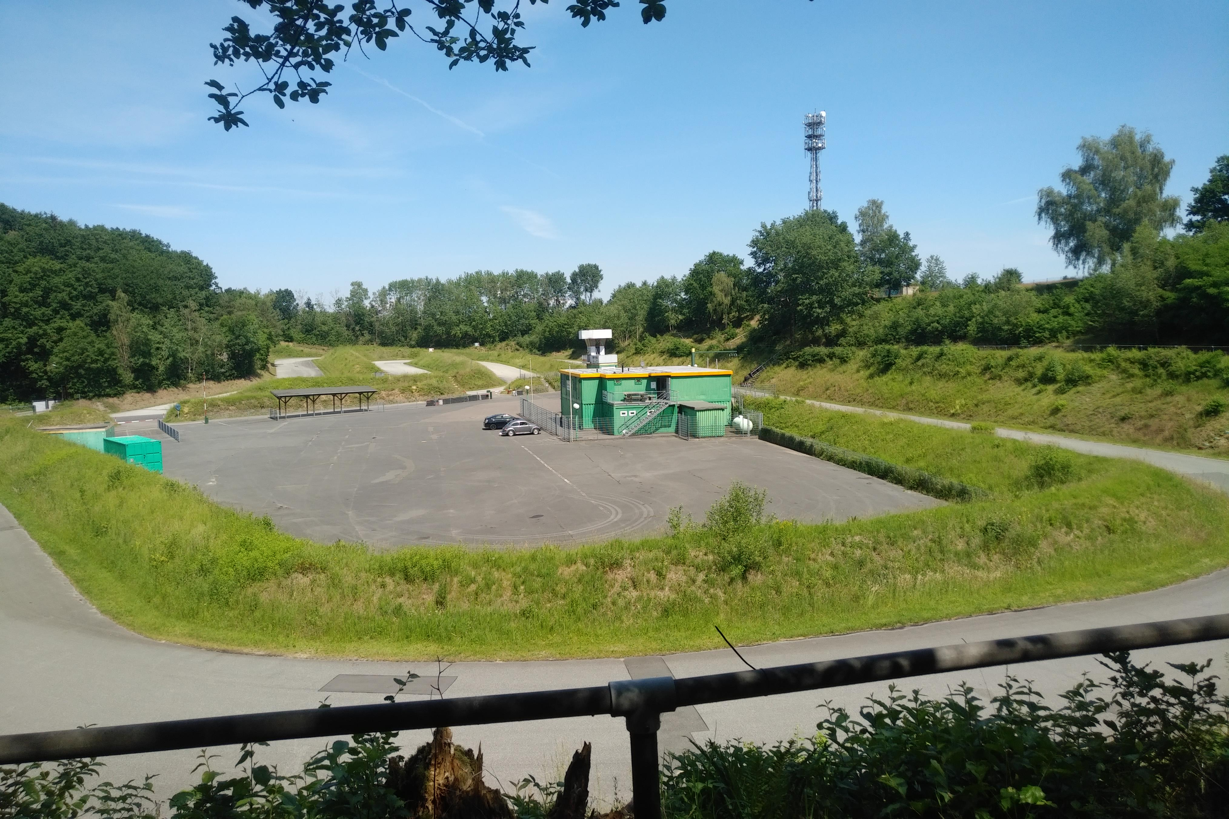 Heidbergring - overview from south on Paddock and trackarea